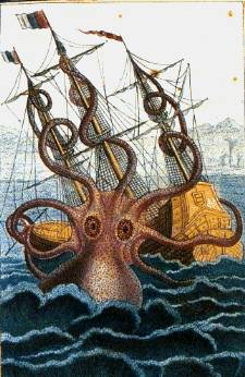 Pen and wash drawing by malacologist Pierre Dénys de Montfort, 1801, from the descriptions of French sailors reportedly attacked by such a creature off the coast of Angola.